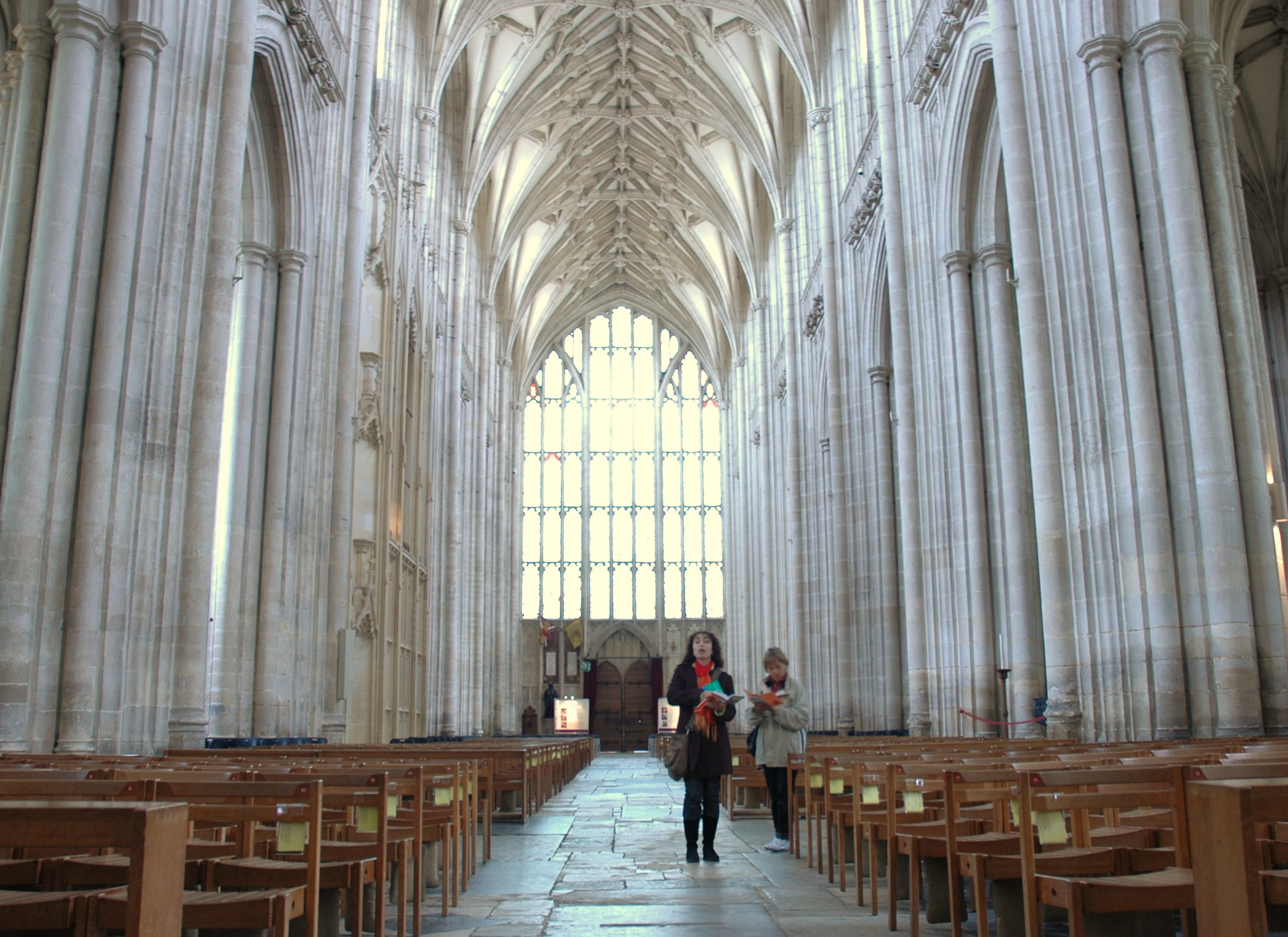 Catedral de Winchester - nau